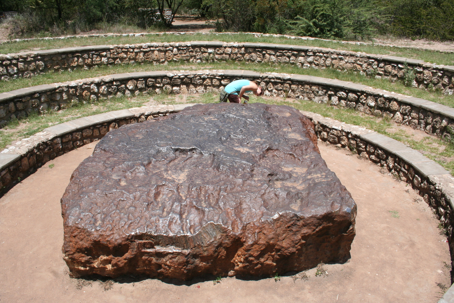 Hoba meteorite near Grootfontein, Namibia.